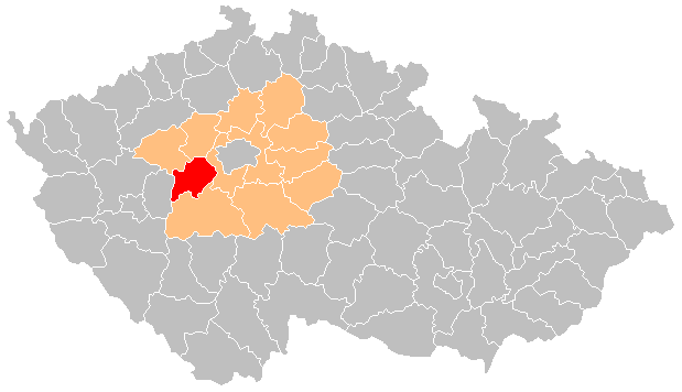 Beroun District within Central Bohemian Region. Current borders of districts since January 1, 2007.